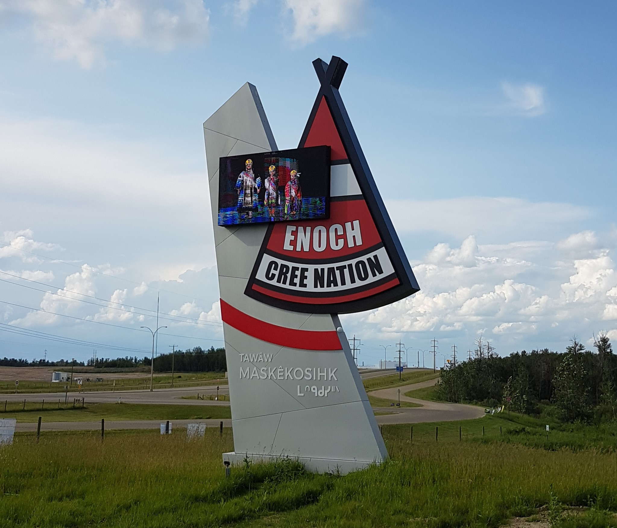 Enoch, Alberta, welcome sign. Nēhiyawēwin / ᓀᐦᐃᔭᐍᐏᐣ: Tawâw Maskêkosihk. ᑕᐋᐧᐤ ᒪᐢᑫᑯᓯᐦᐠ